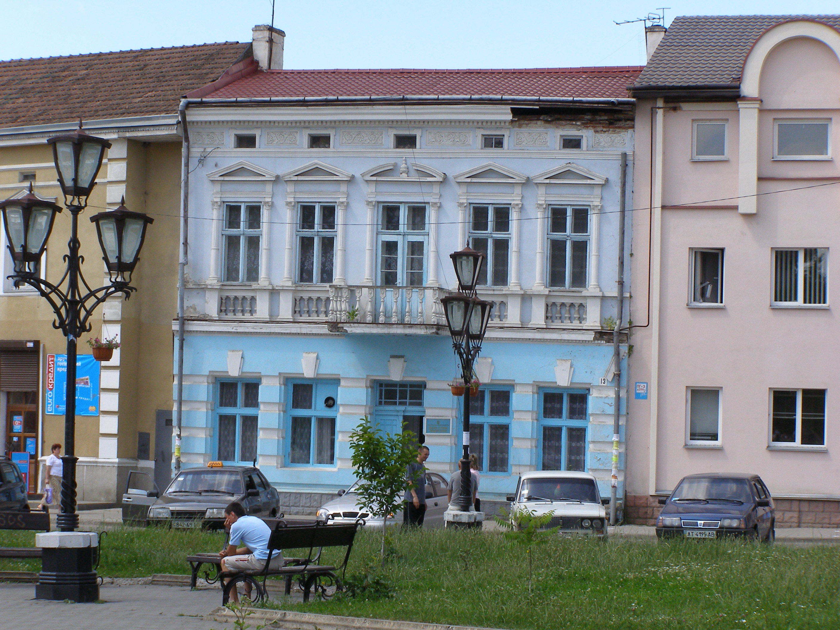 Houses in center of Halych, Ivano-Frankivsk Oblast, western Ukraine.